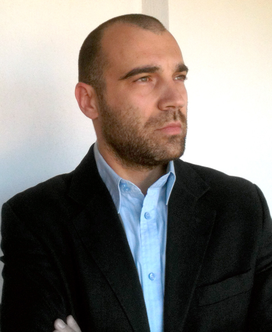 Panagiotis Iliopoulos April 21st 2012